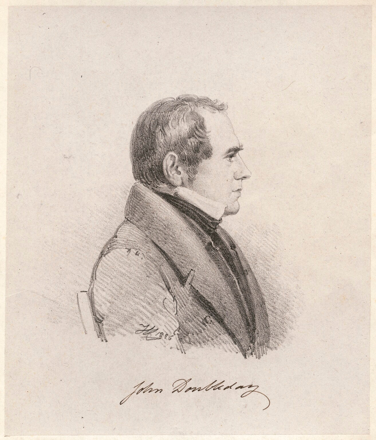 John Doubleday (c.1798-1856), restorer at the British Museum.